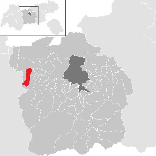 District Innsbruck Land